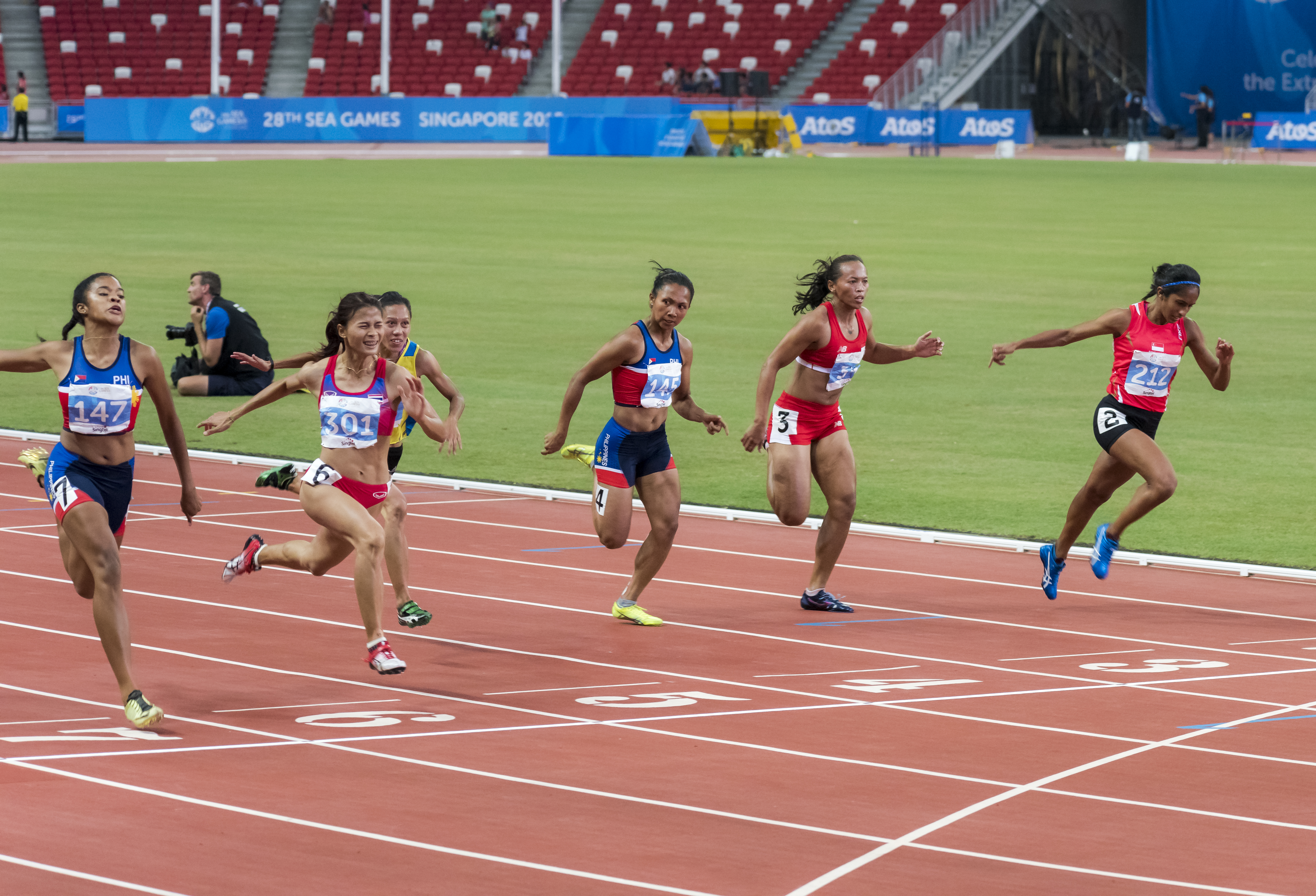 shanti pereira 2015 sea games 100m final